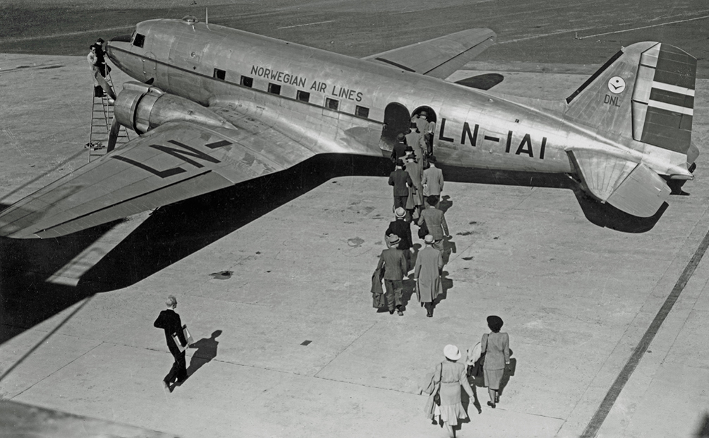 Douglas C-53D (DC-3) of Norwegian Air Lines at Fornebu Airport, Oslo